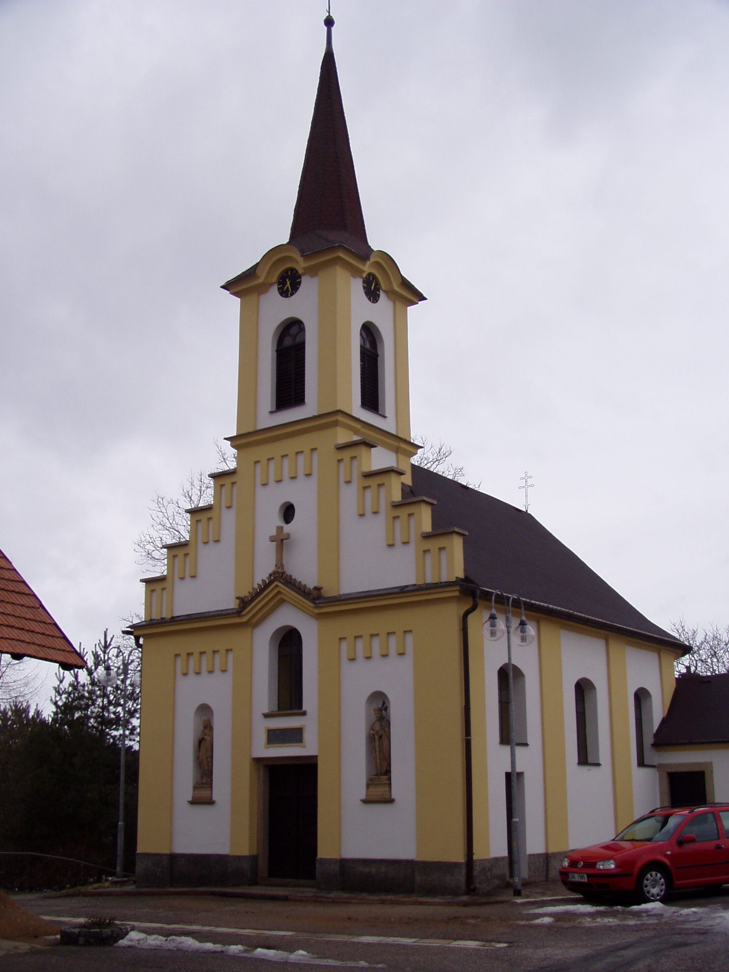 Nahořany - Church of the Holy Family